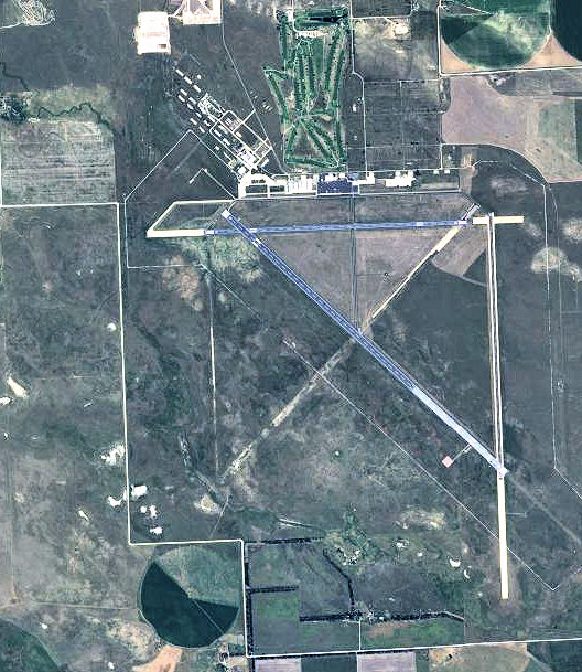 USGS digital orthophoto of Alliance Municipal Airport - Nebraska